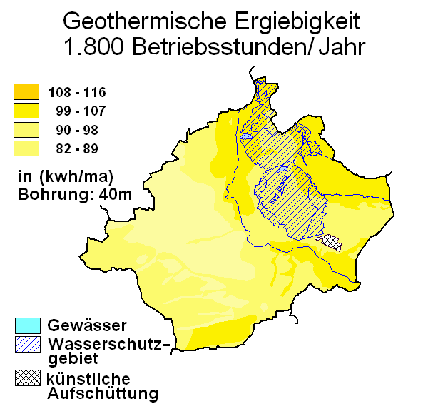 geothermal map of Rheda-Wiedenbrück